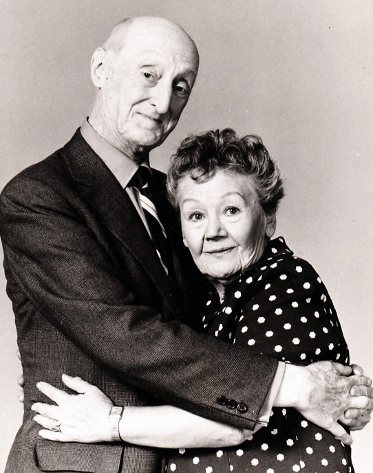 Publicity photo of Bert Mustin and Queenie Smith from the television program The Funny Side.